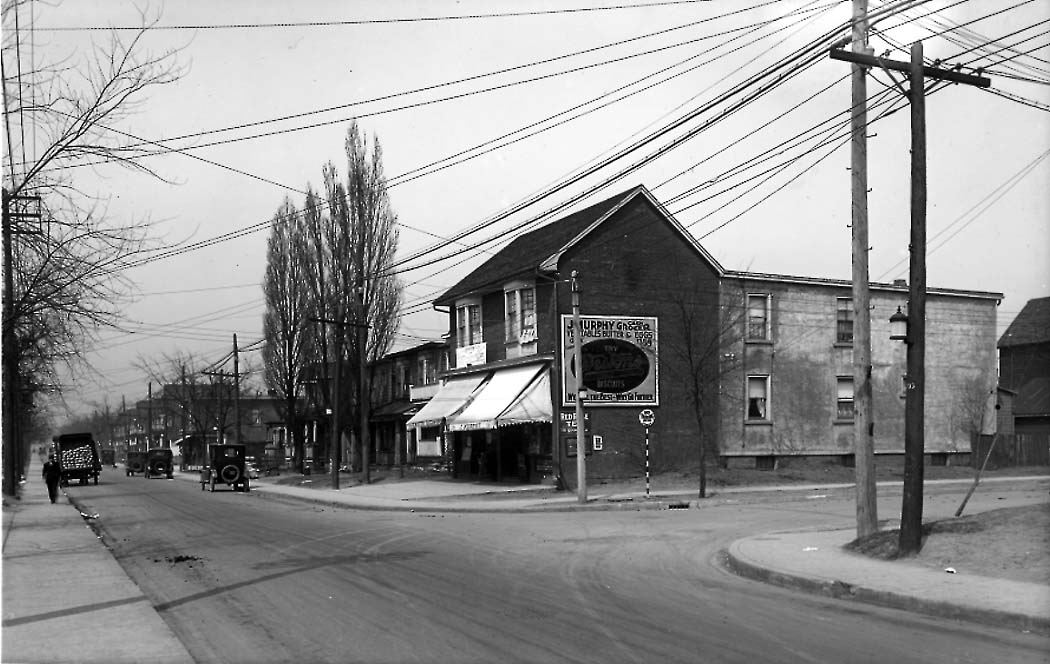 Pape Ave and Lipton Ave, looking north-east (Toronto, Canada). Site later redeveloped as the Pape Subway Station.